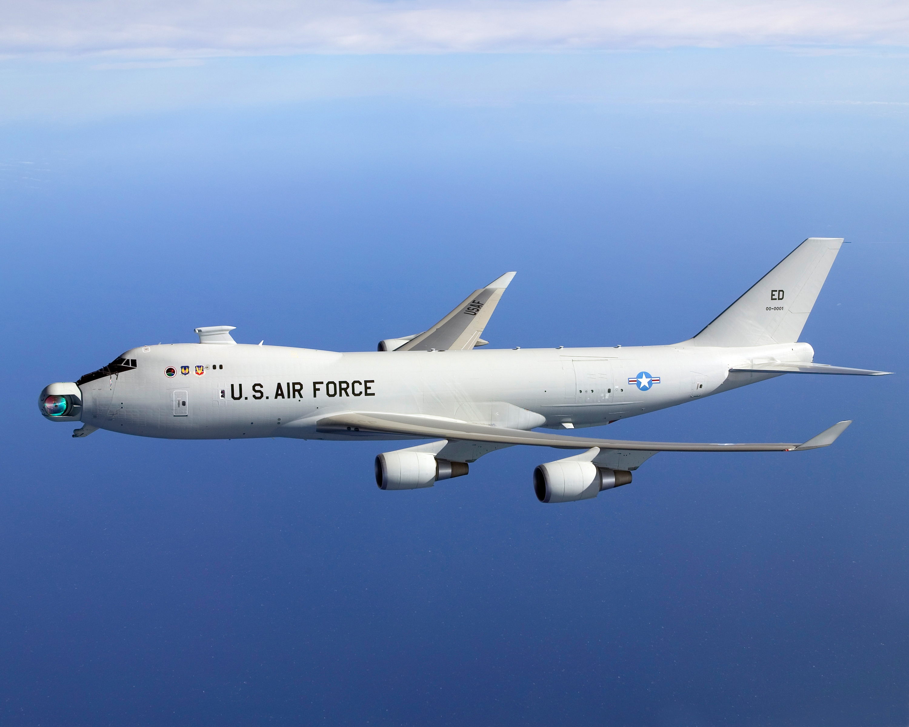 YAL-1A Airborne Laser in flight with the mirror unstowed.